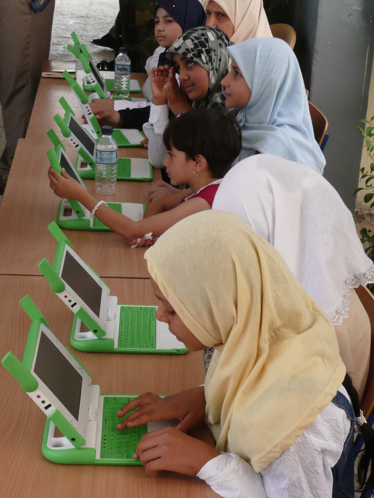 Najmi, Muthanna province, Iraq Photos taken by Aaron D. Snipe Public Diplomacy Officer Provincial Reconstruction Team Muthanna Embassy of the United States of America IRAQ